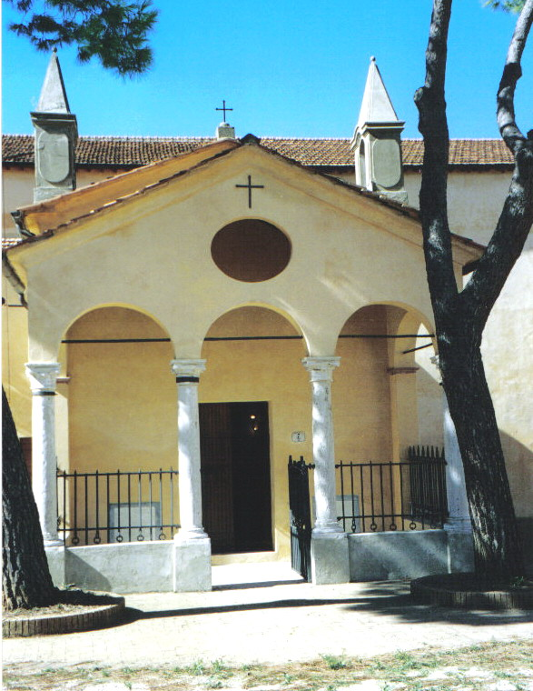 The chapel of Santa Maria a Grancia, near the farm of Grancia, in the Italian city of Grosseto. The church belongs to the parish of Rispescia.